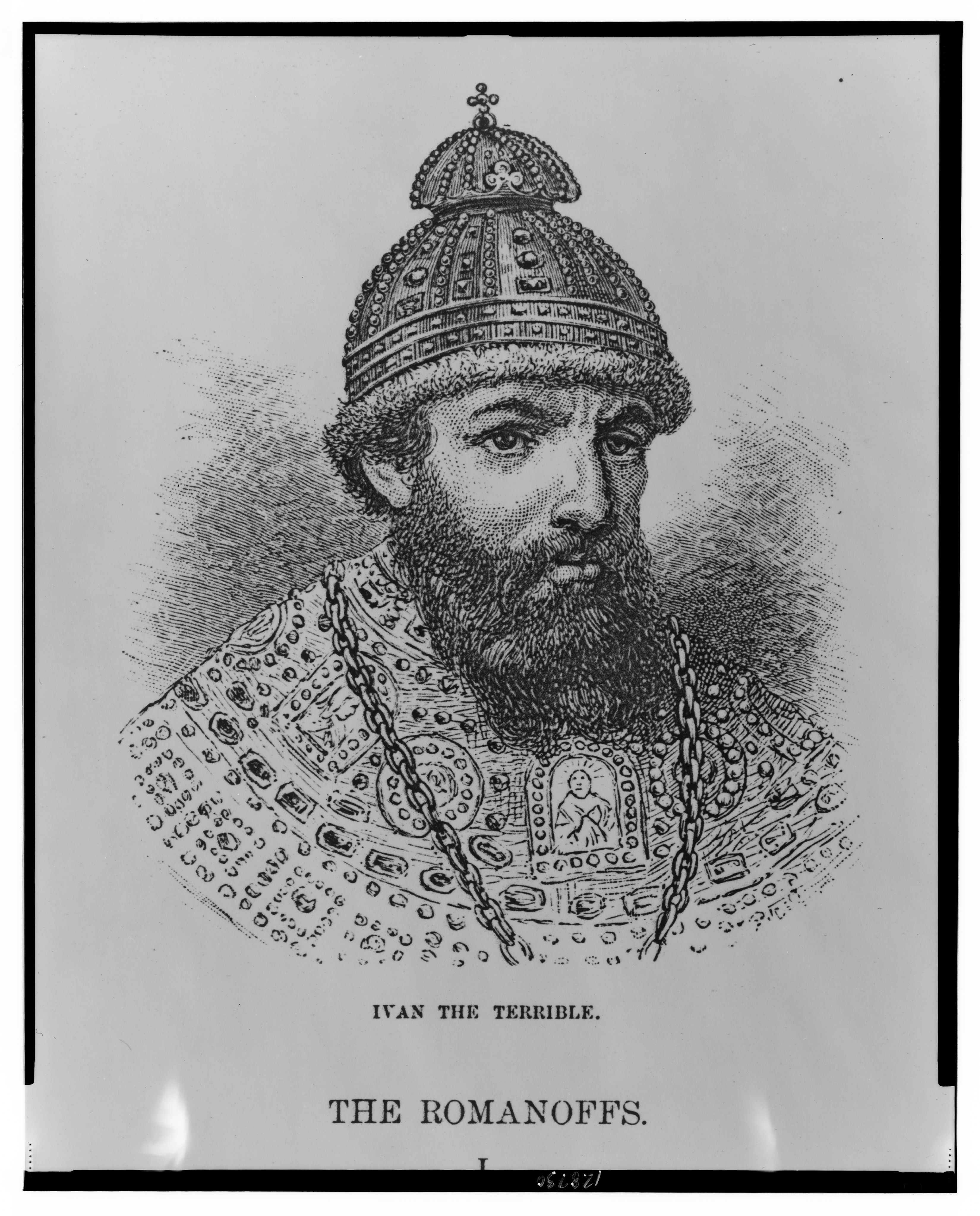 Title: Ivan the Terrible Abstract/medium: 1 photomechanical print : photocopy.